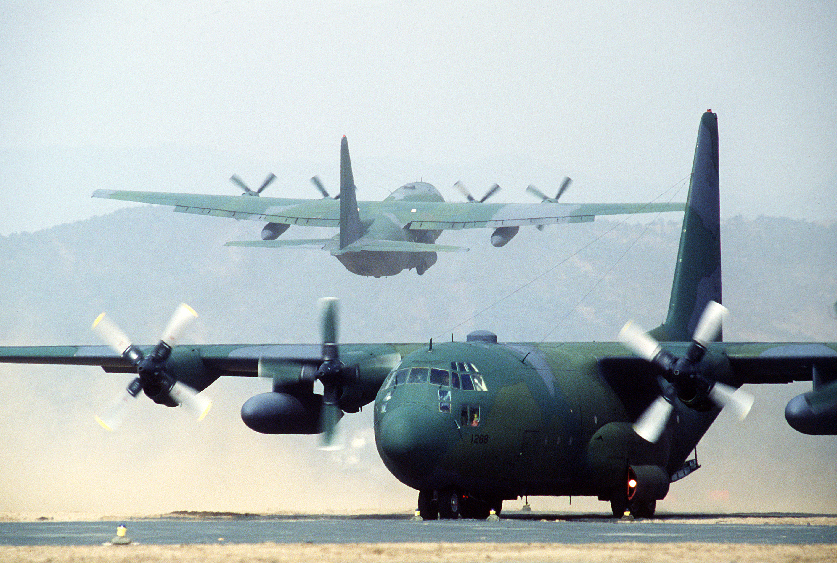 One U.S. Air Force C-130 Hercules aircraft taxis as another takes off from Yeo Ju airstrip during the joint U.S./South Korean Exercise Team Spirit '84.